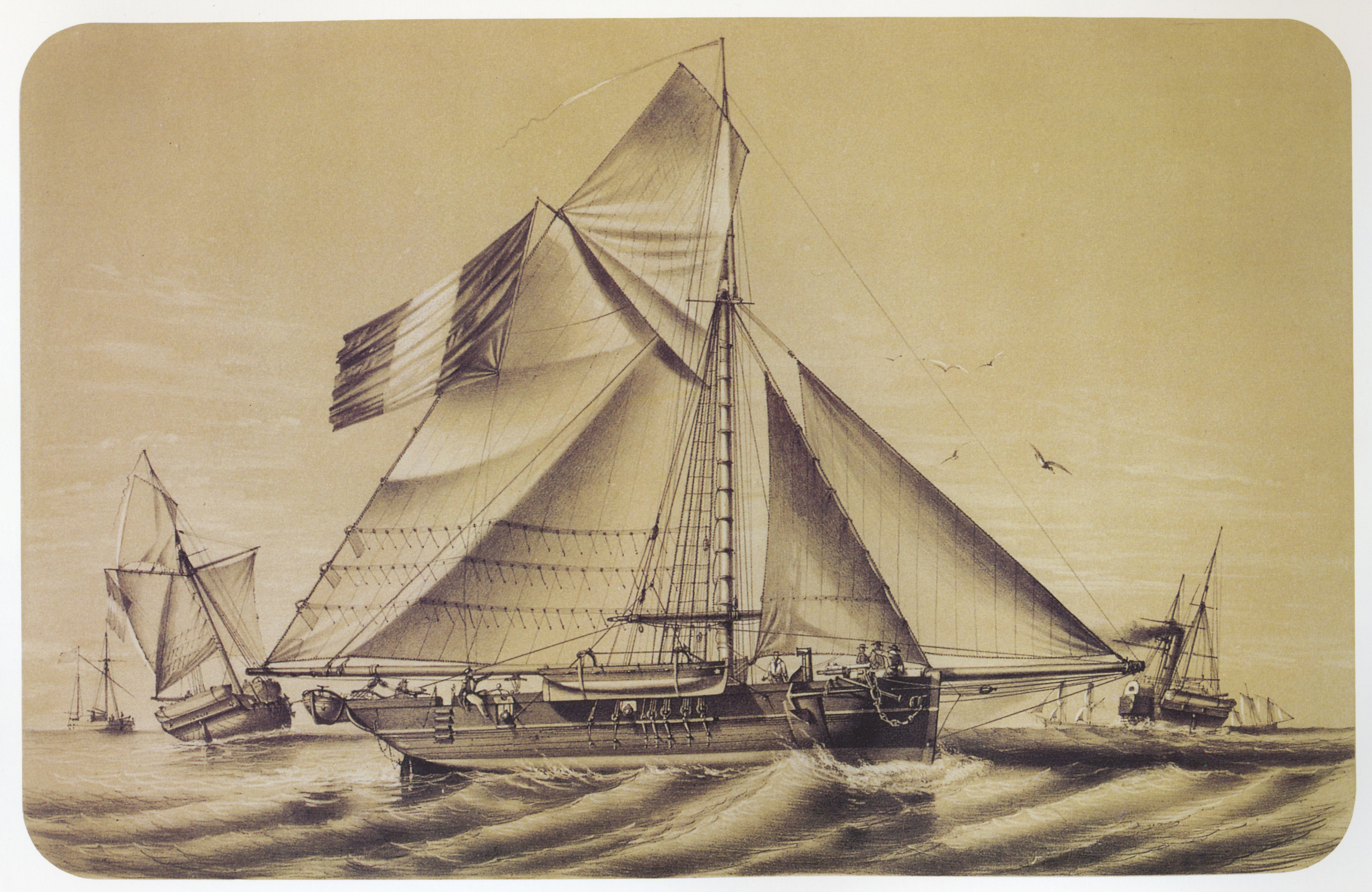 A cutter